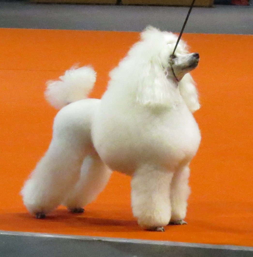 Riga, Baltic Winner 2013, 9-10 Nov